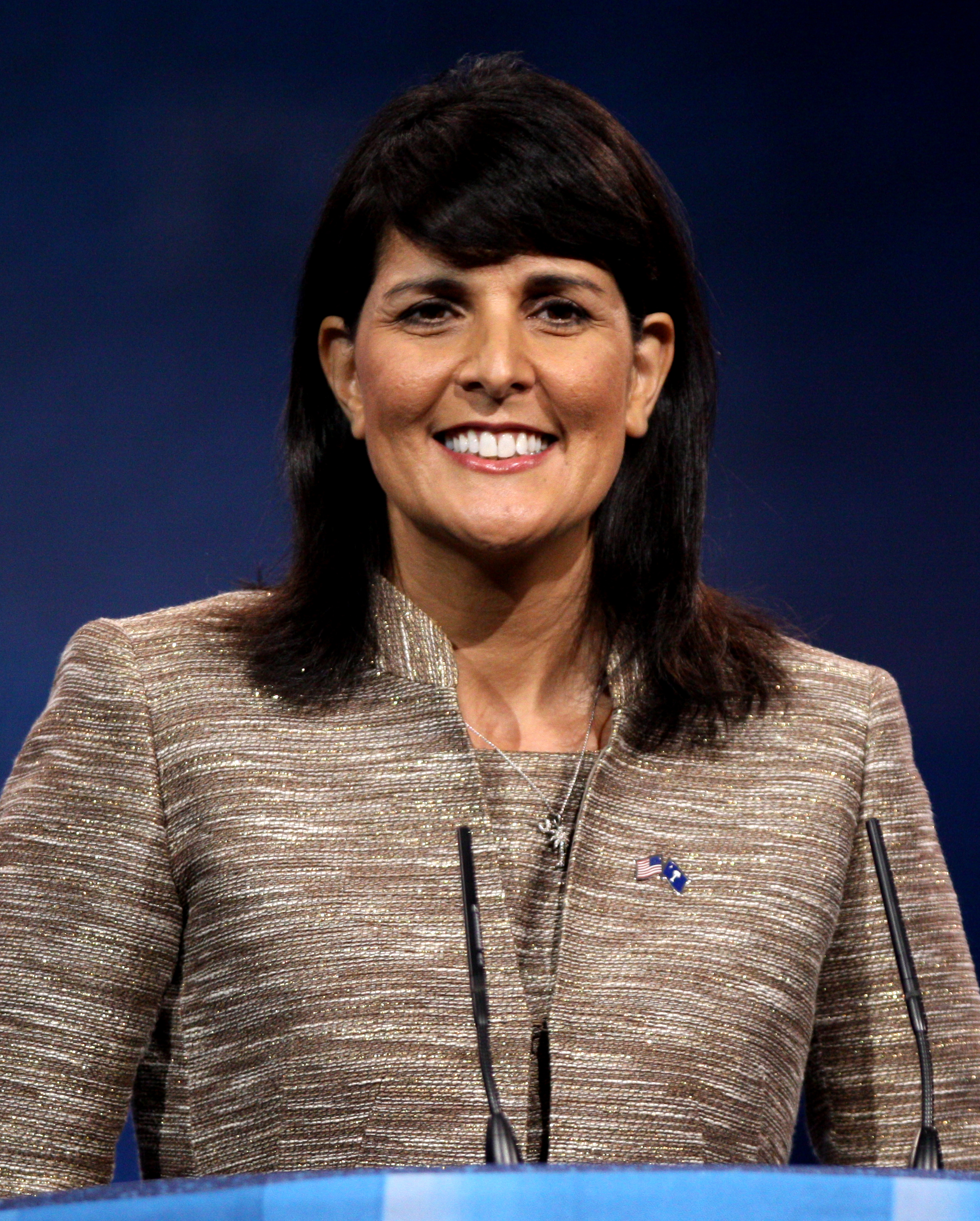 Nikki Haley speaking at the 2013 CPAC in Washington D.C. on March 15, 2013.